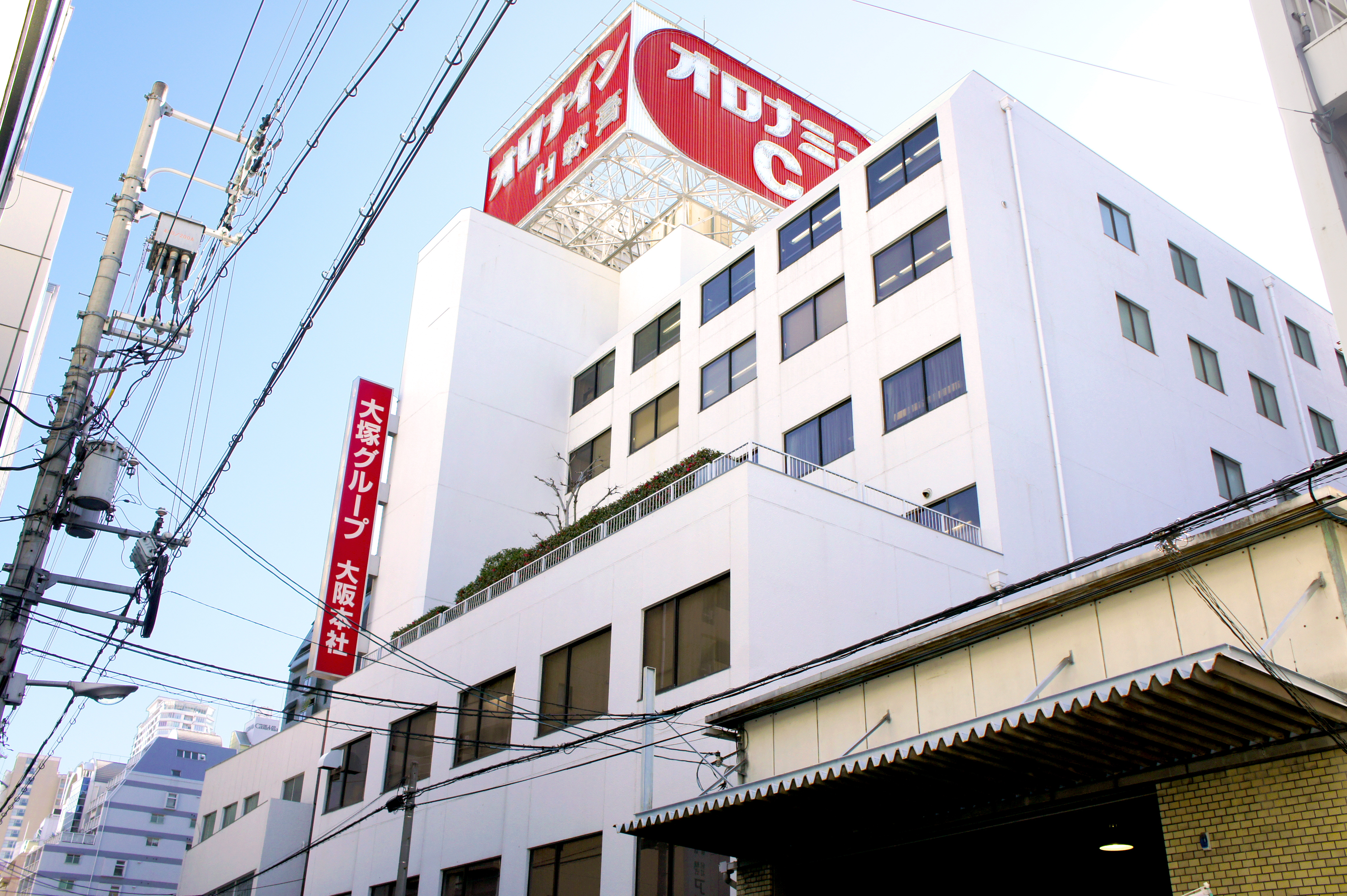 Otsuka Group Osaka, 3-2-27 Otedori Chuo-ku Osaka-City Osaka Japan.